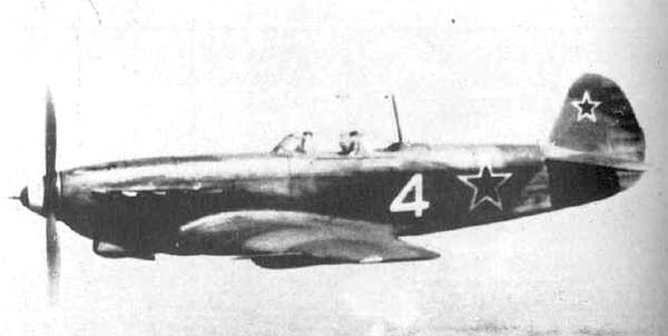 Yakovlev Yak-9M in flight.